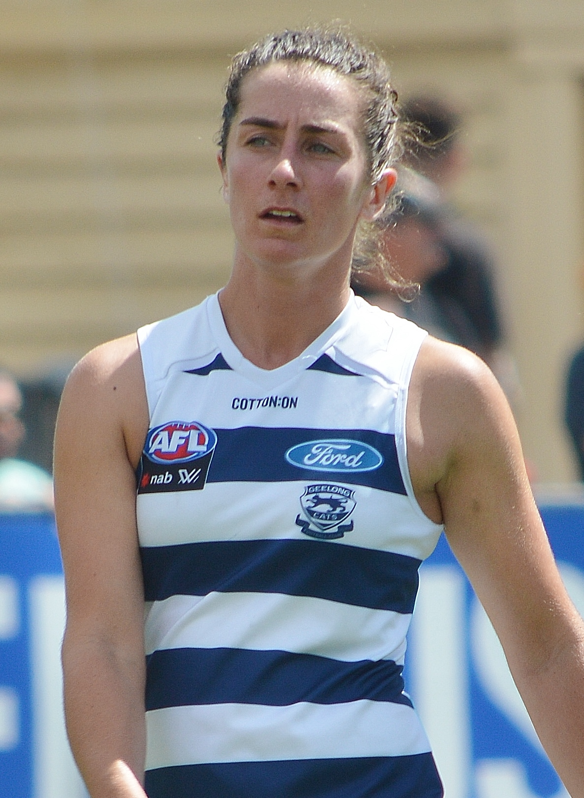 Rebecca Goring with Geelong in the round 4 2020 AFLW match against Richmond at Queen Elizabeth Oval in Bendigo.